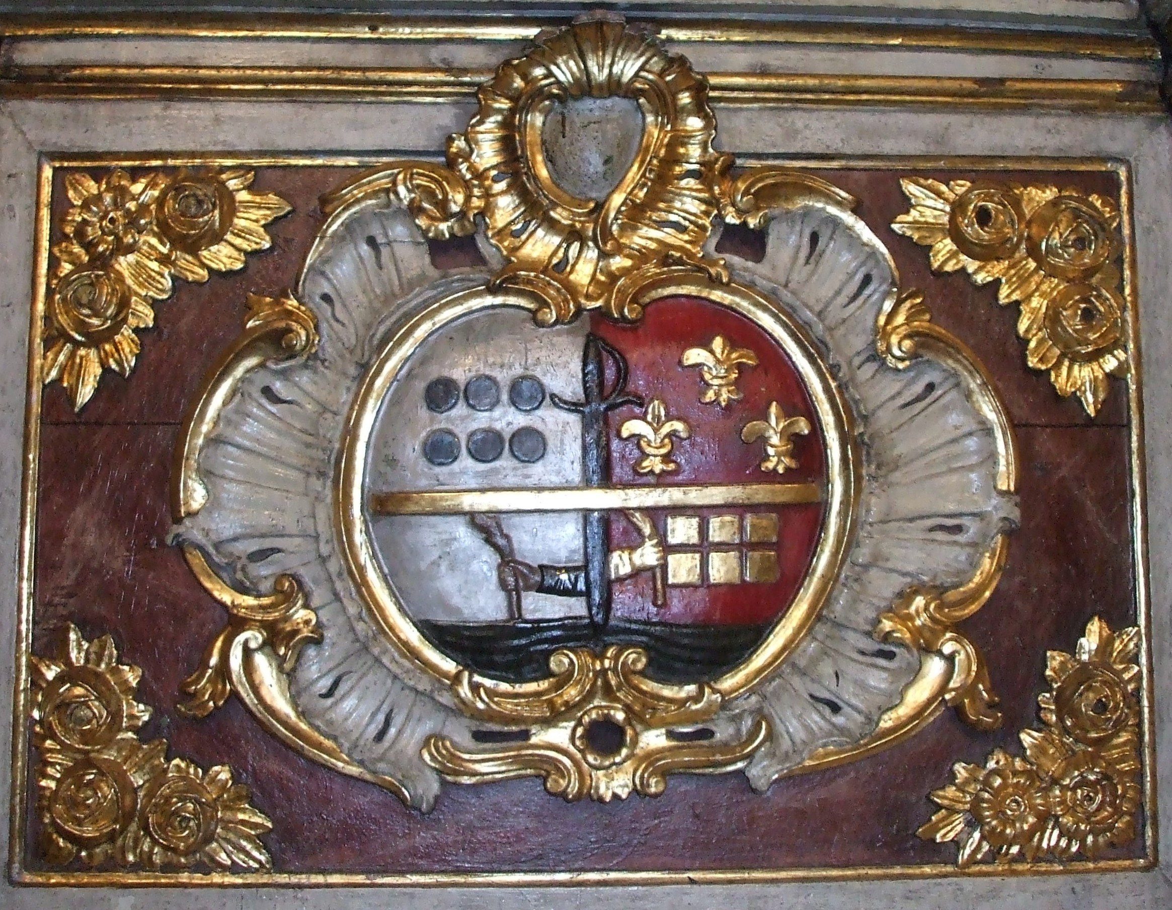 Coat of Arms Bermúdez de Castro